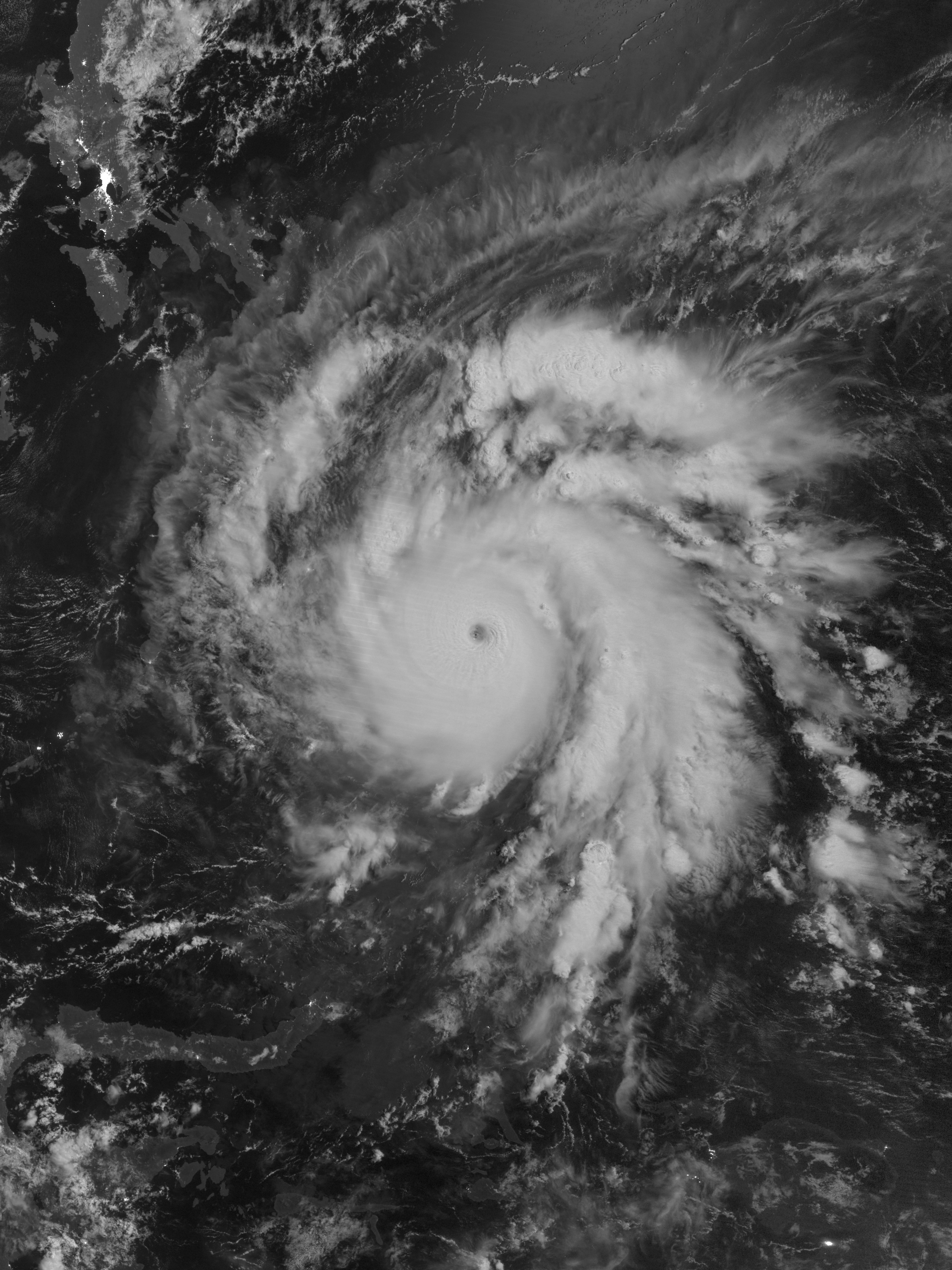 The Suomi NPP satellite acquired this image of Typhoon Bopha around 01:12 local time on December 4 (17:12 UTC on December 3). Bopha remained a powerful typhoon as it made landfall on Mindanao, retaining a distinct eye and spiral shape as storm clouds stretched over the eastern part of the island. It was the deadliest tropical cyclone worldwide in 2012.